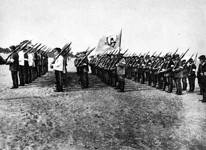 The Civil Guard of Seiskari in autumn 1917